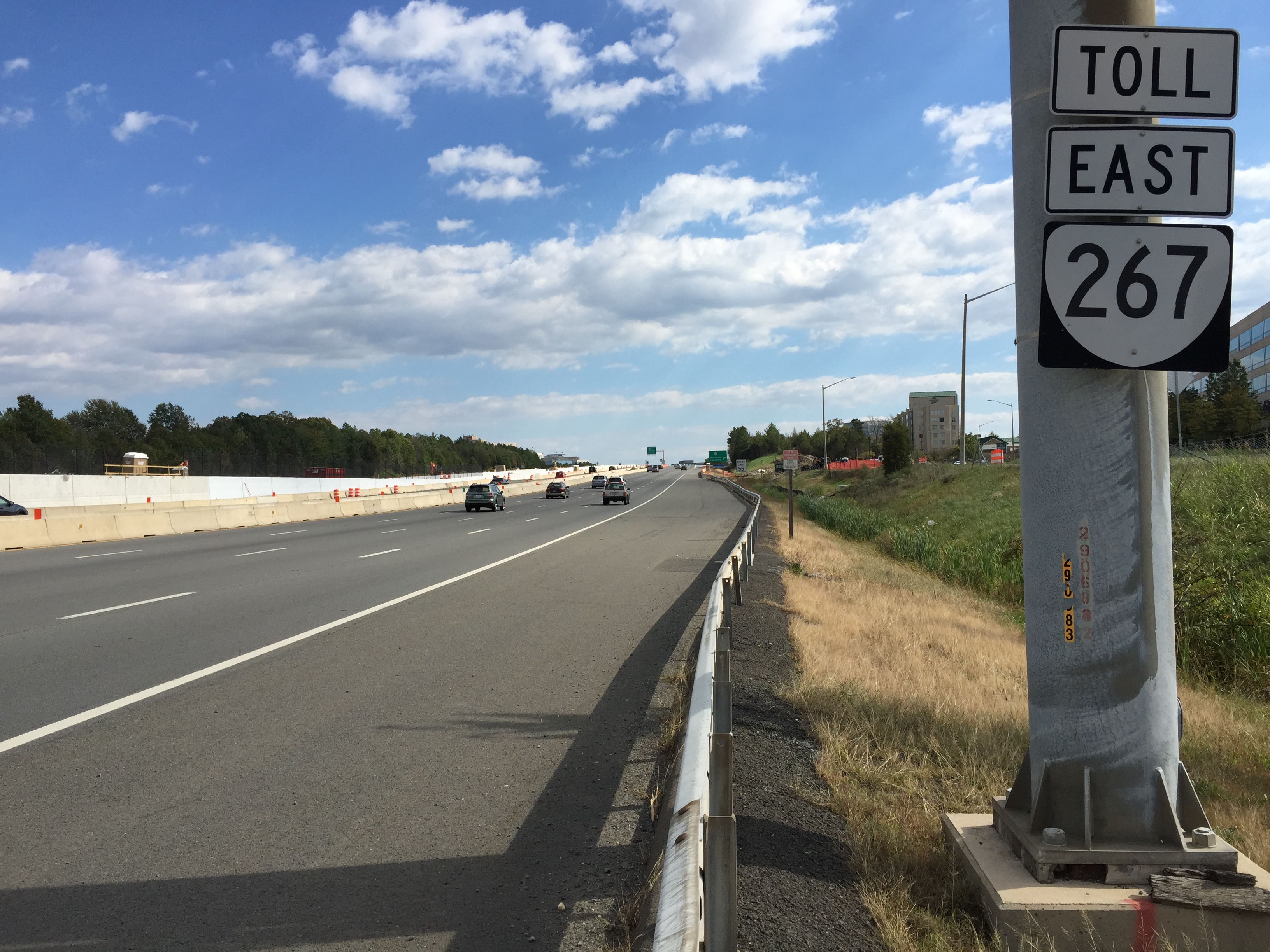 View east along Virginia State Route 267 (Dulles Toll Road) just west of Exit 10 (Virginia State Route 657, Herndon, Chantilly) in McNair, Fairfax County, Virginia